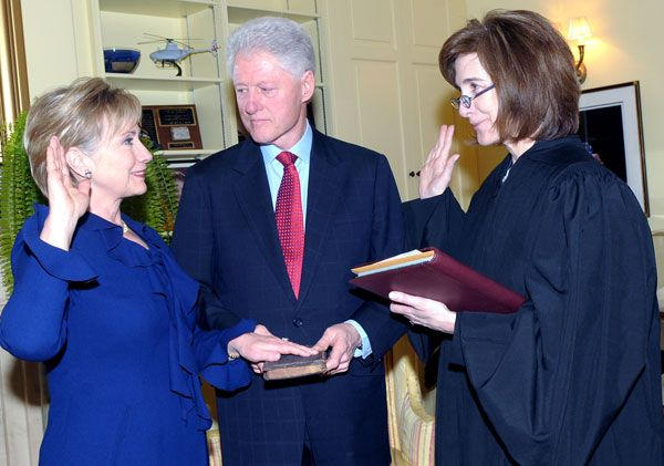 Secretary of State-Designate Hillary Rodham Clinton is being sworn in as the next Secretary of State after approval of her nomination. Her husband and former U.S. President, Bill Clinton, holds the Bible.